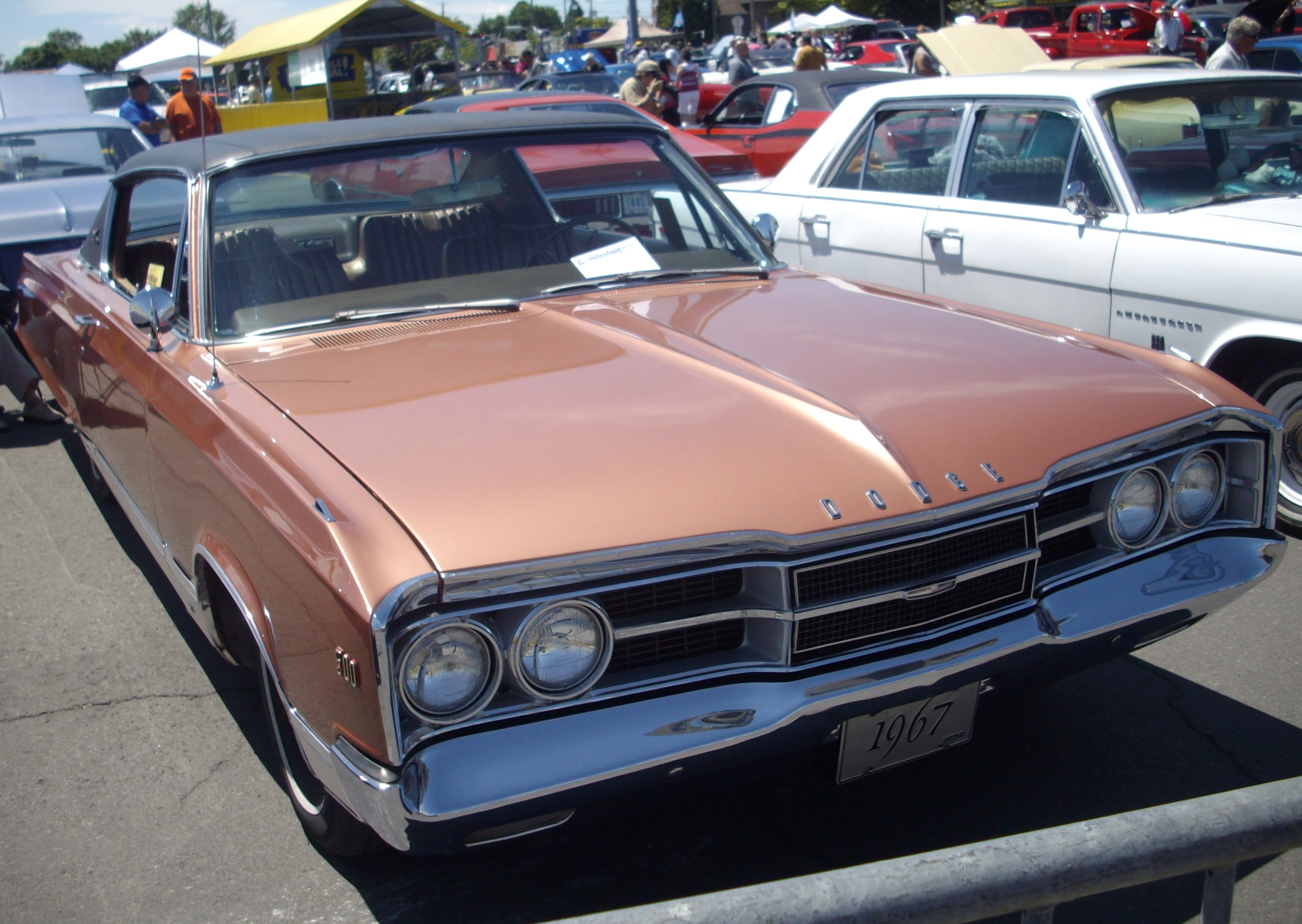 1967 Dodge Monaco 500 photographed in Salaberry De Valleyfield, Quebec, Canada at Rassemblement Mopar Valleyfield 2012.